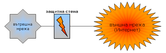 General scheme of a firewall (in Bulgarian).